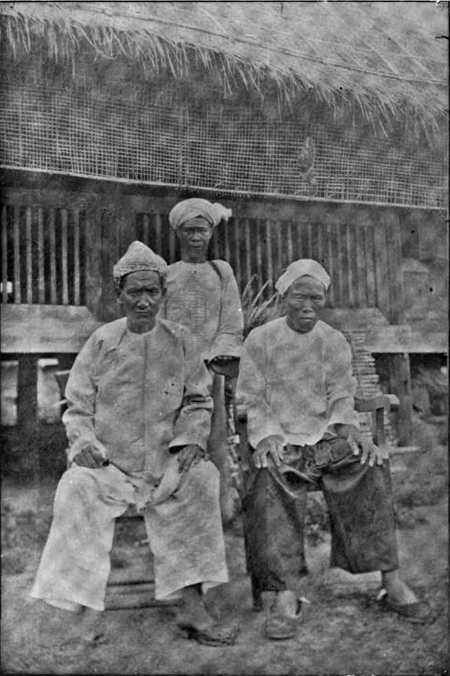 Hui-hui or Panthe